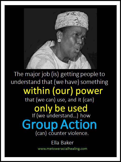 This file is a photo of Ella Baker with her quote: "The major job was getting people to understand that they had something within their power that they could use, and it could only be used if they understood what was happening and how group action could counter violence." Photo credit to Me to We Racial Healing.